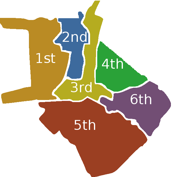 Map shows the first congressional district of Manila, Philippines